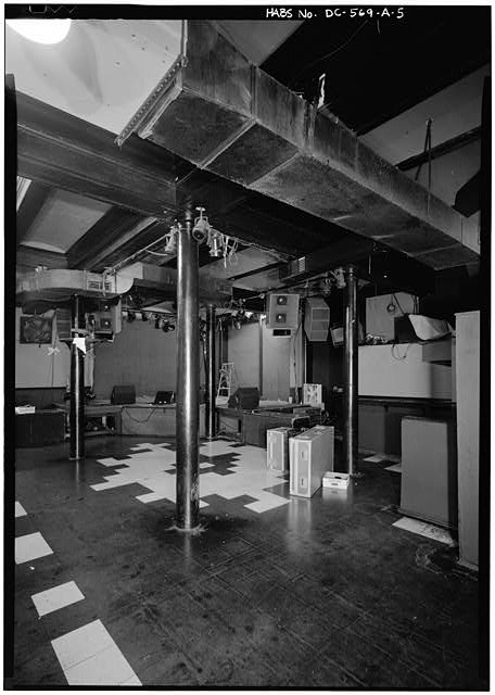 The interior of the original 9:30 Club, which was housed in the ground floor rear room of the Atlantic Building at 930 F Street NW, in downtown Washington, D.C..